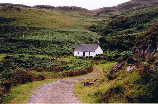 Bearnus on the Island of Ulva This lonely house sits on the coastal track overlooking Lòn Bhearnuis. Isle of Ulva, Inner Hebrides.